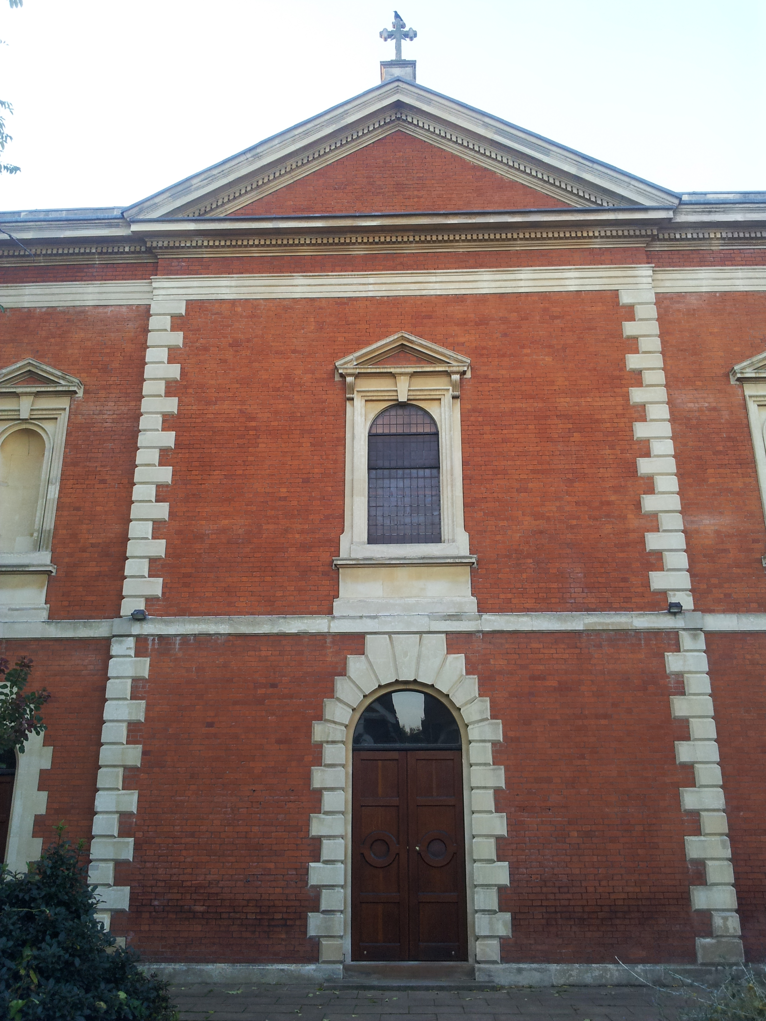 Roman Catholic church of Our Lady of Loreto and St Winefride, Leyborne Park, Kew, southwest London